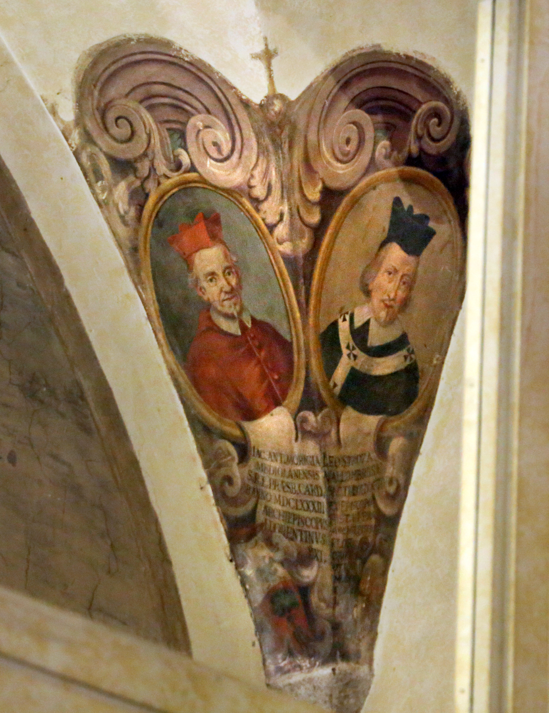 Palazzo Arcivescovile (Florence)